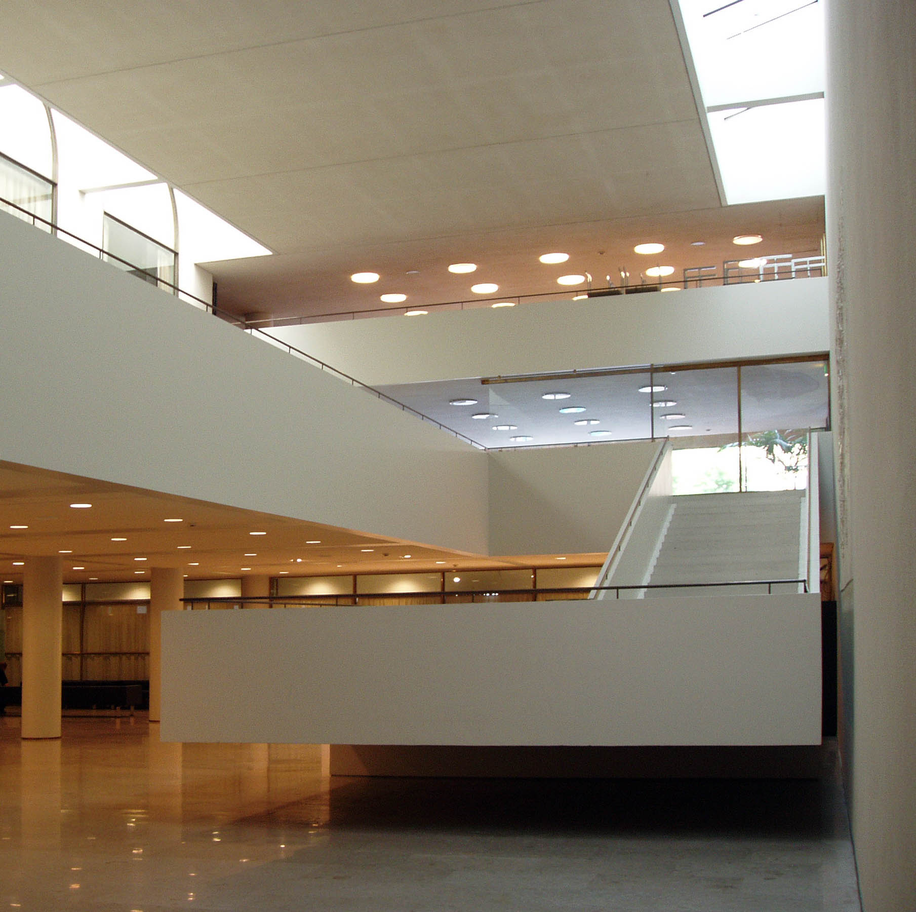 Aarno Ruusuvuori Helsinki City Hall modernised entrance hall. The artwork specially commissioned for the space (by Kimmo Kaivanto) is immediately to the left but cannot be included in the photo for copyright reasons